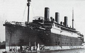 Hamburg-America Line ship Admiral von Tirpitz being fitted out at Stettin, Germany, about 1913. She was seized in 1919 as a war prize, transferred to P&O and then Canadian Pacific, becoming RMS Empress of Australia in 1922.